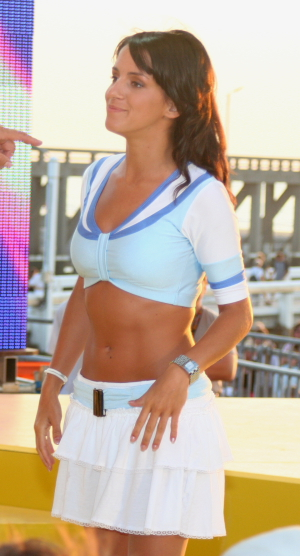 Belgian singer Ellen Dufour